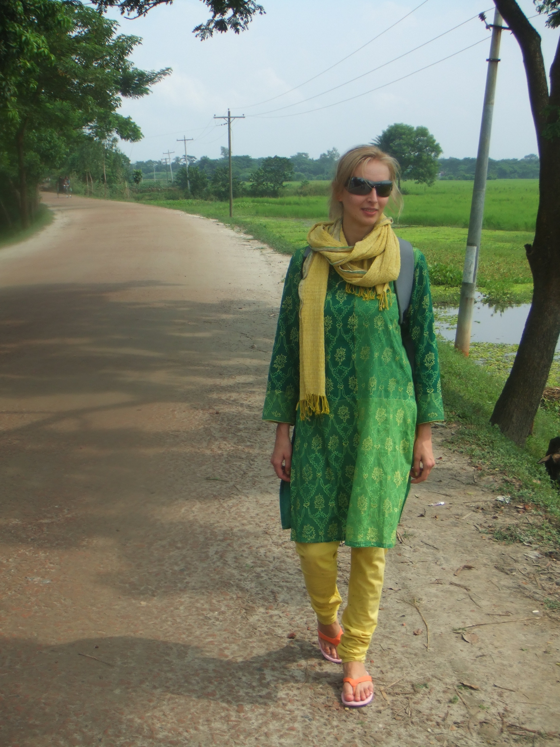 Western woman in Bangladesh wearing a yellow churidar (tight, long trousers) and dupatta (scarf) with a green kameez (loose, long top).